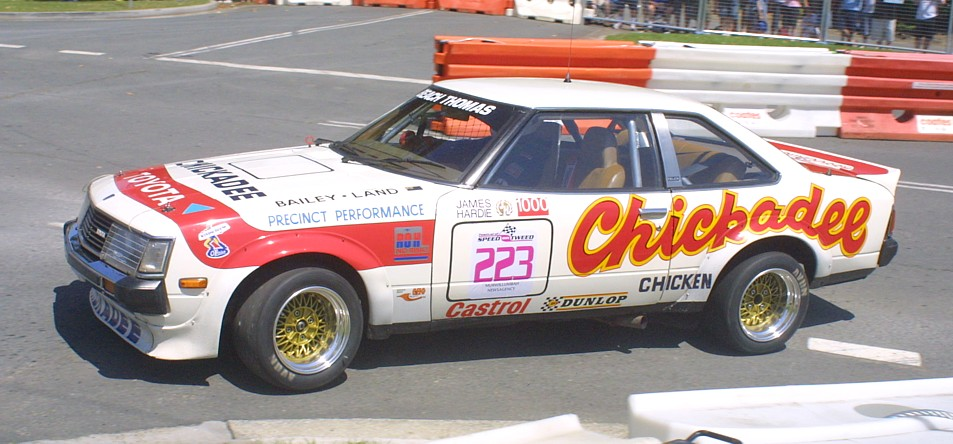 Graeme Bailey Toyota Celica Coupe (RA40) touring car